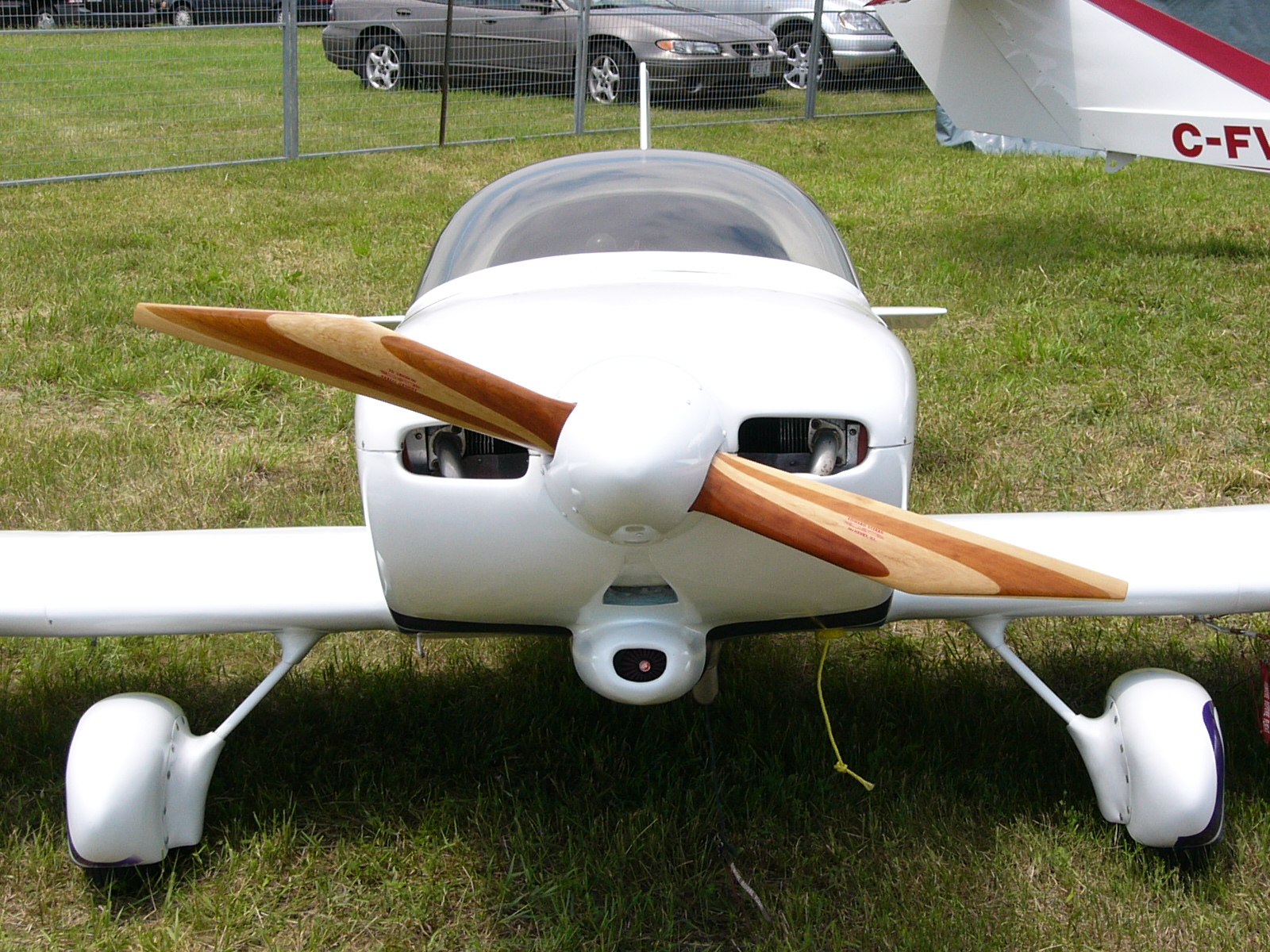 Rand KR-2S (C-GKRZ) at the 2004 Canadian Aviation Expo, Oshawa, Ontario, Canada